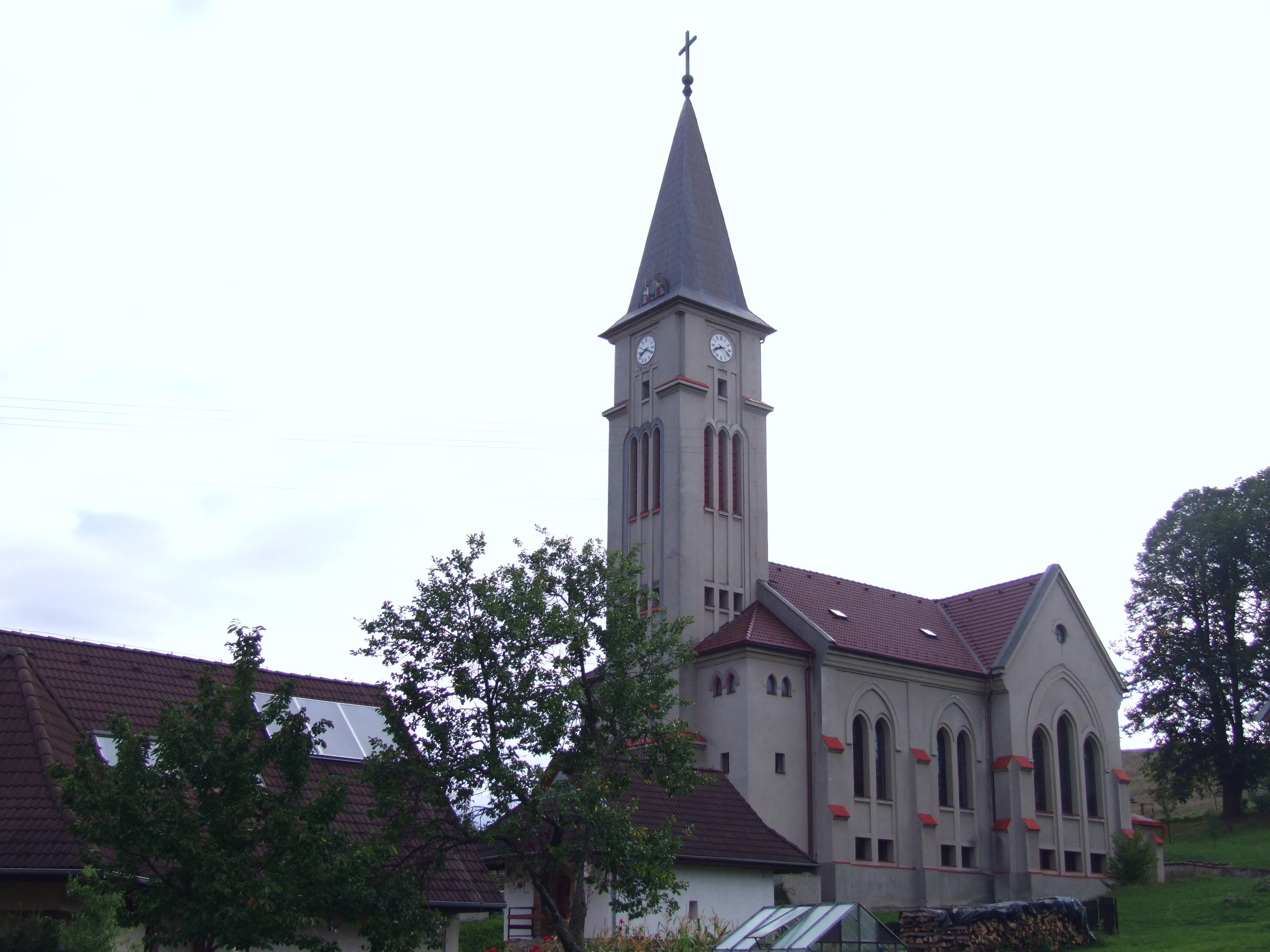 Žiar, Liptovský Mikuláš District